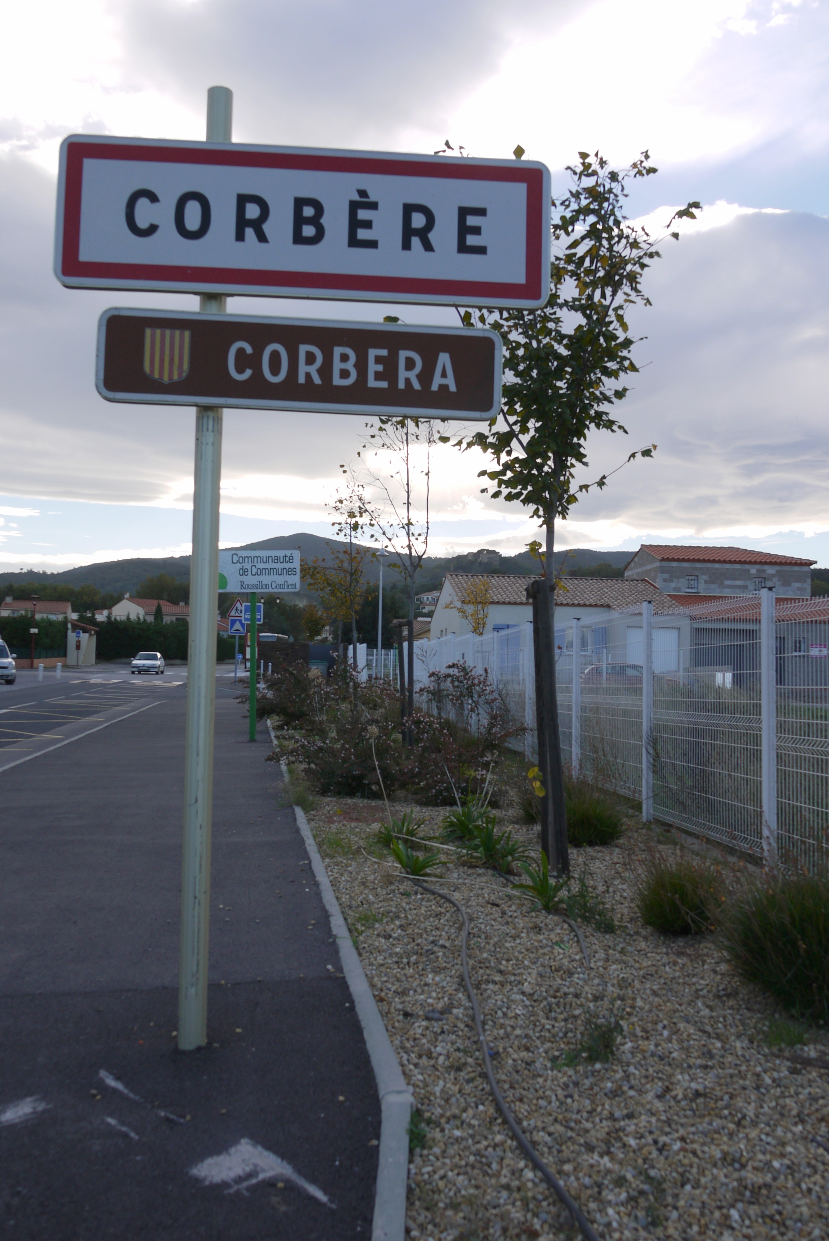 City limit sign in Corbère